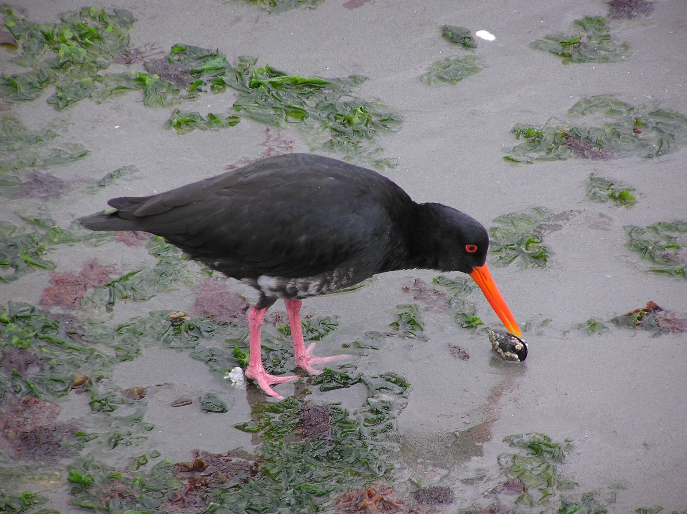 Variable Oyster Catcher on Petone Beach, Wellington Harbour, Wellington, New Zealand. Māori: Torea